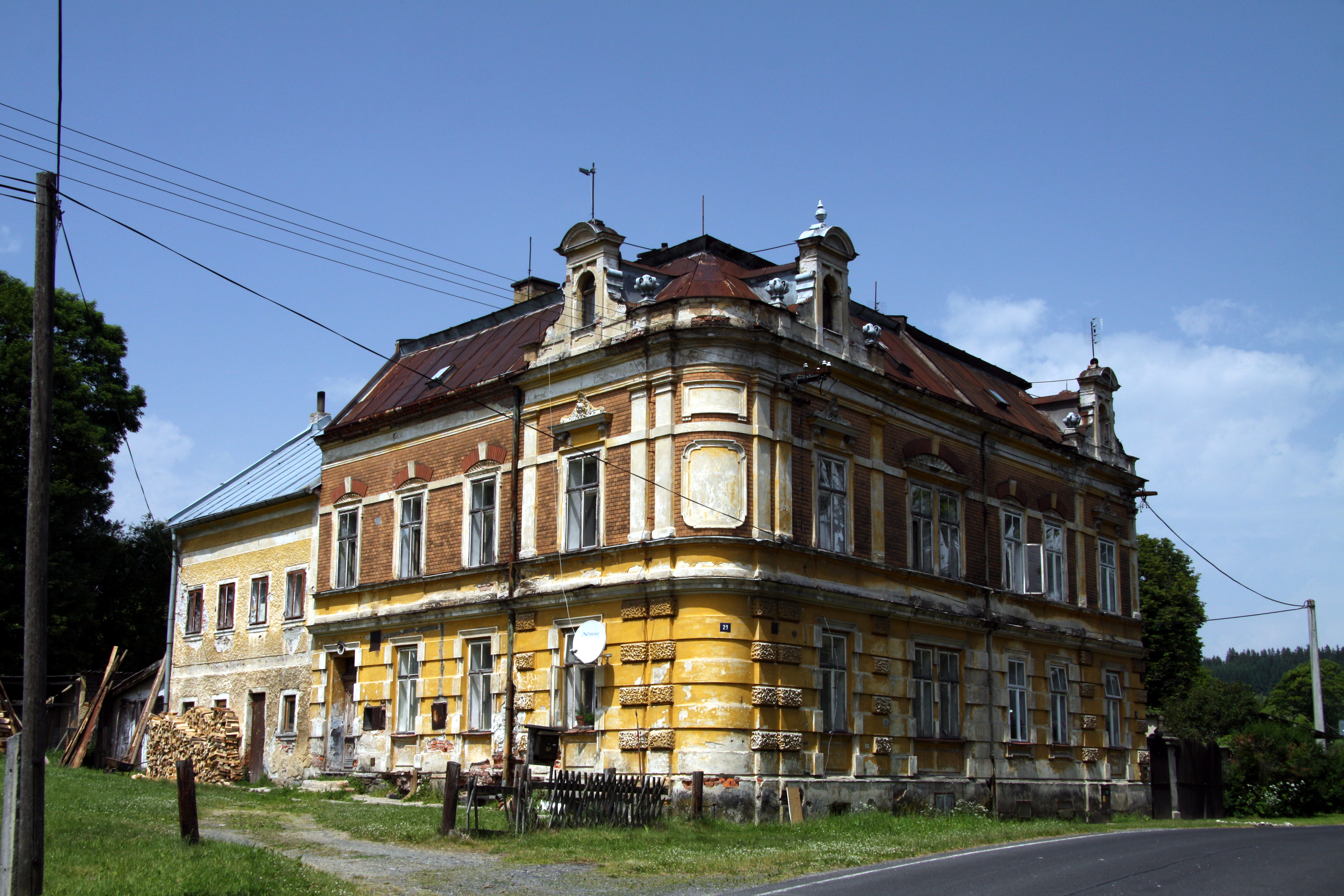 Building in Prameny village in Cheb District, Czech Republic